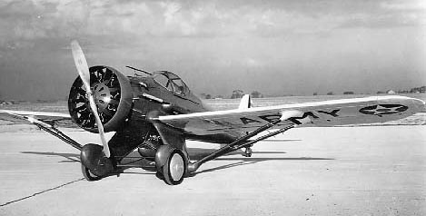 Curtiss XP-31 with Wright R-1820